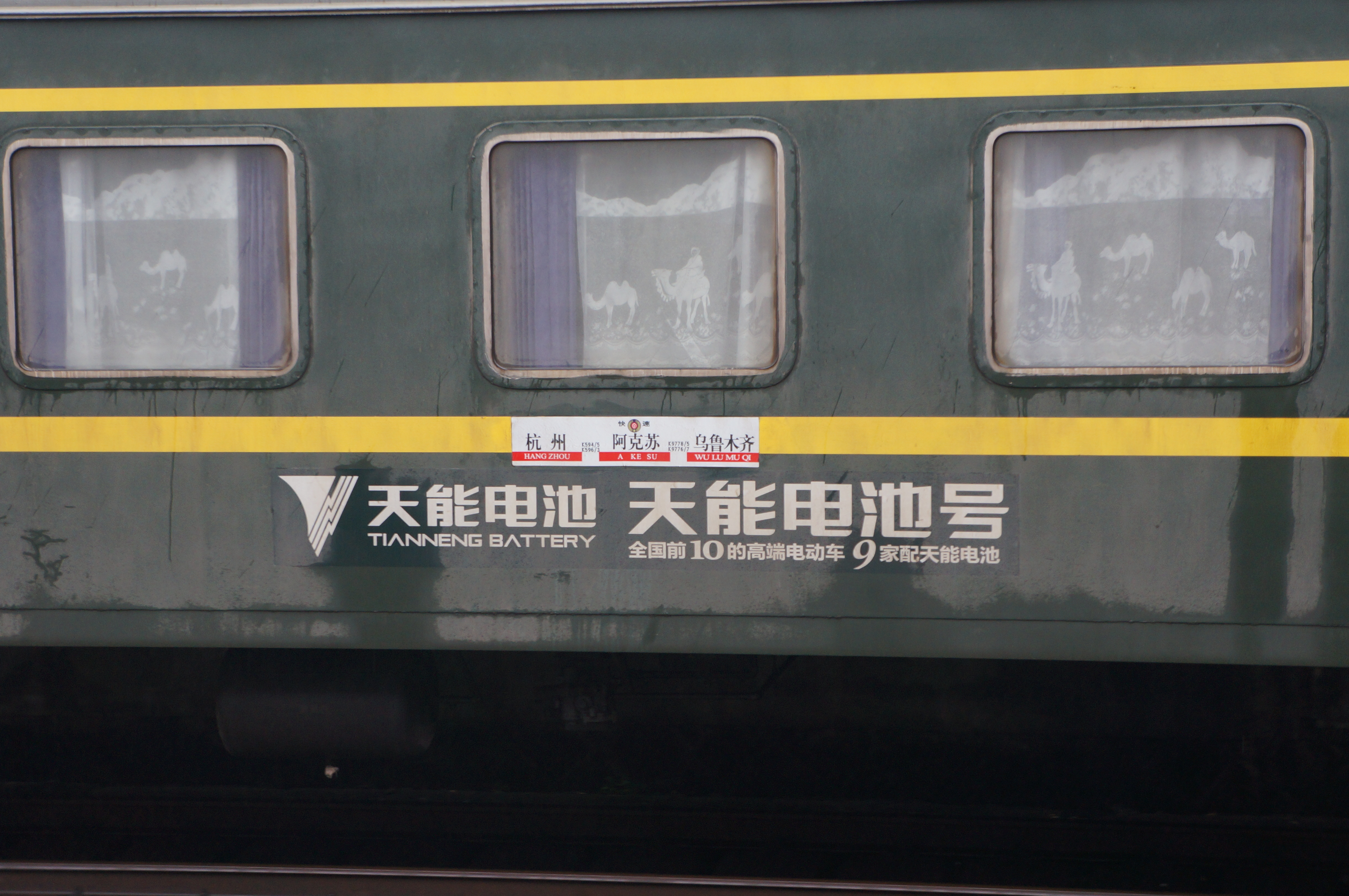 K593 4 5 6 between Aqsu and Hangzhou infoboard in 201812